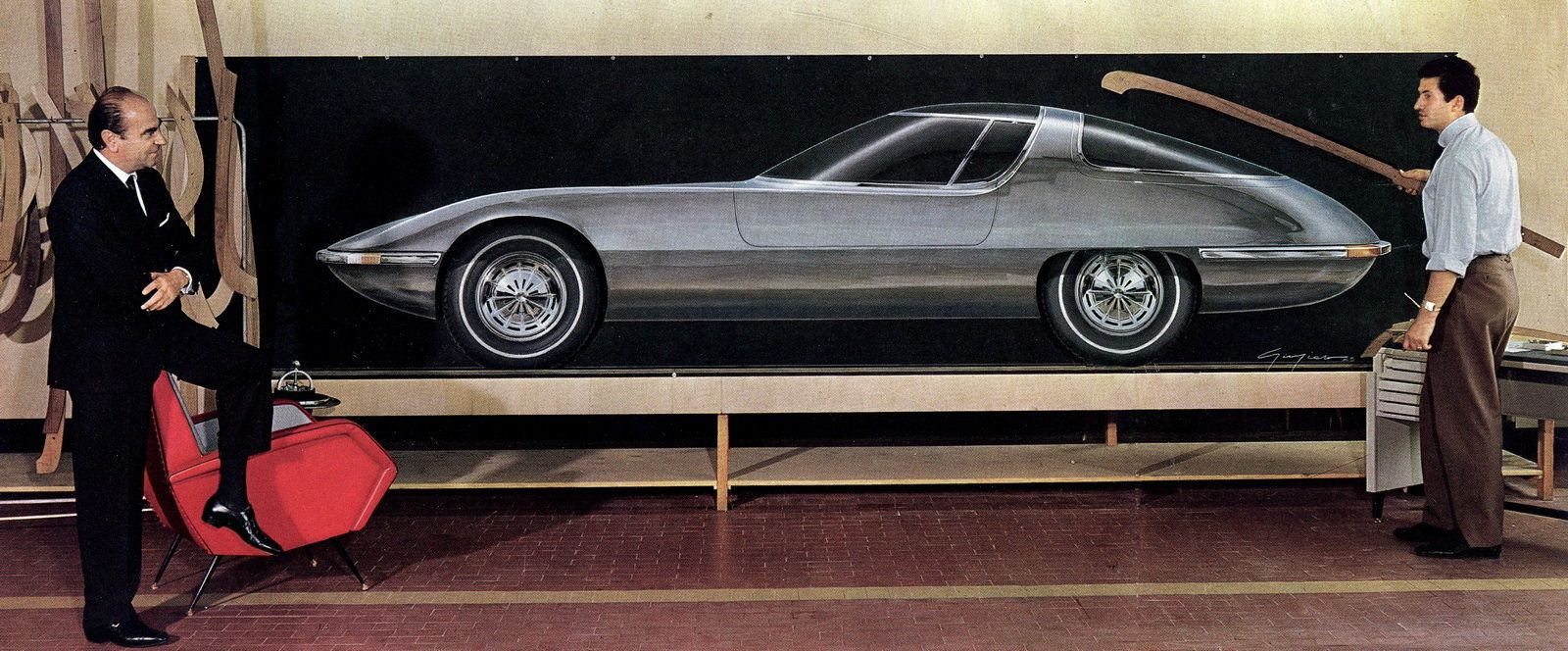 Drawing of Chevrolet Corvair Testudo and designers Bertone & Giugiaro in 1963.